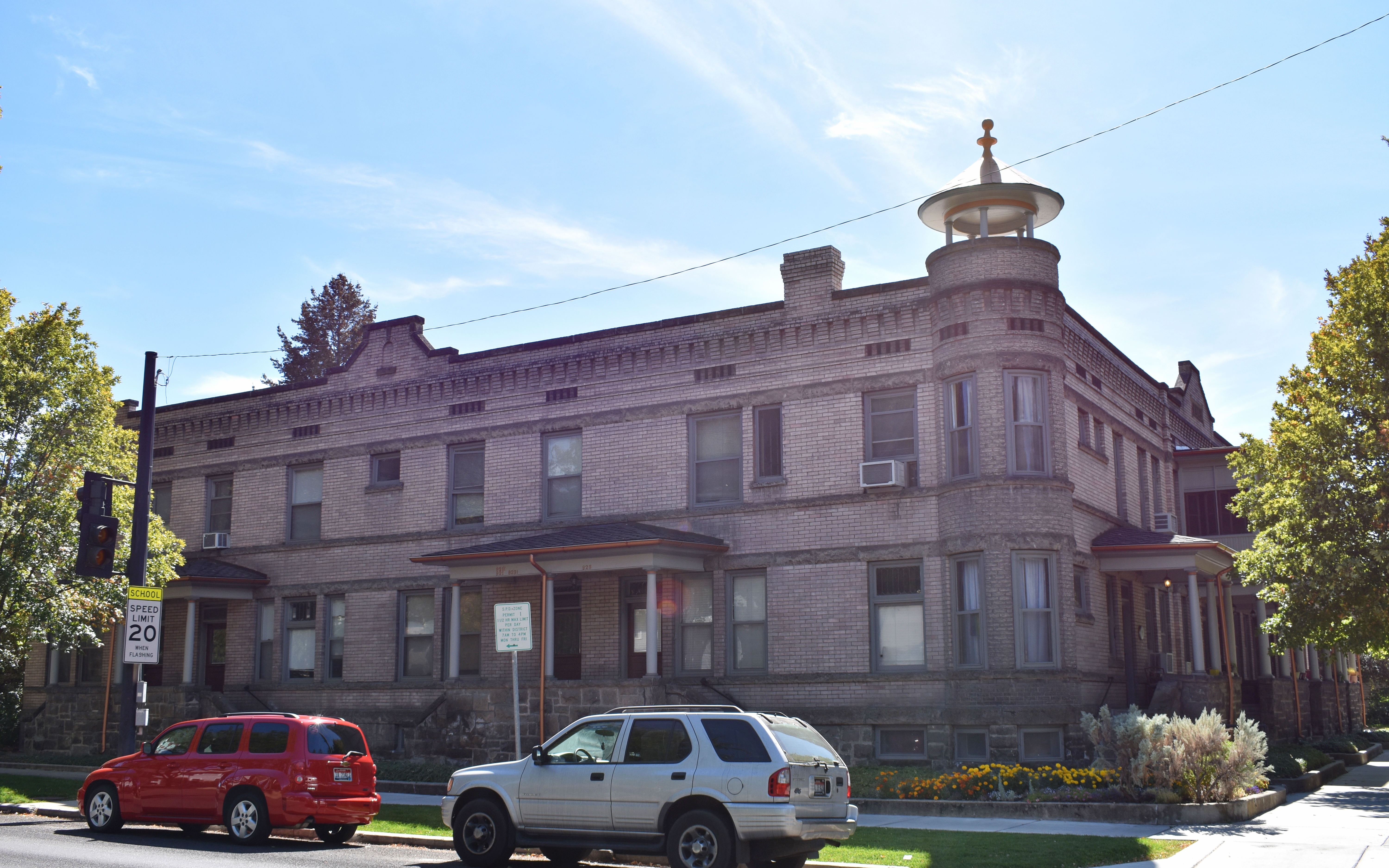 West Fort and North 10th Streets view of T. J. Jones Apartments in Boise, Idaho, a building designed by Tourtellotte & Co..